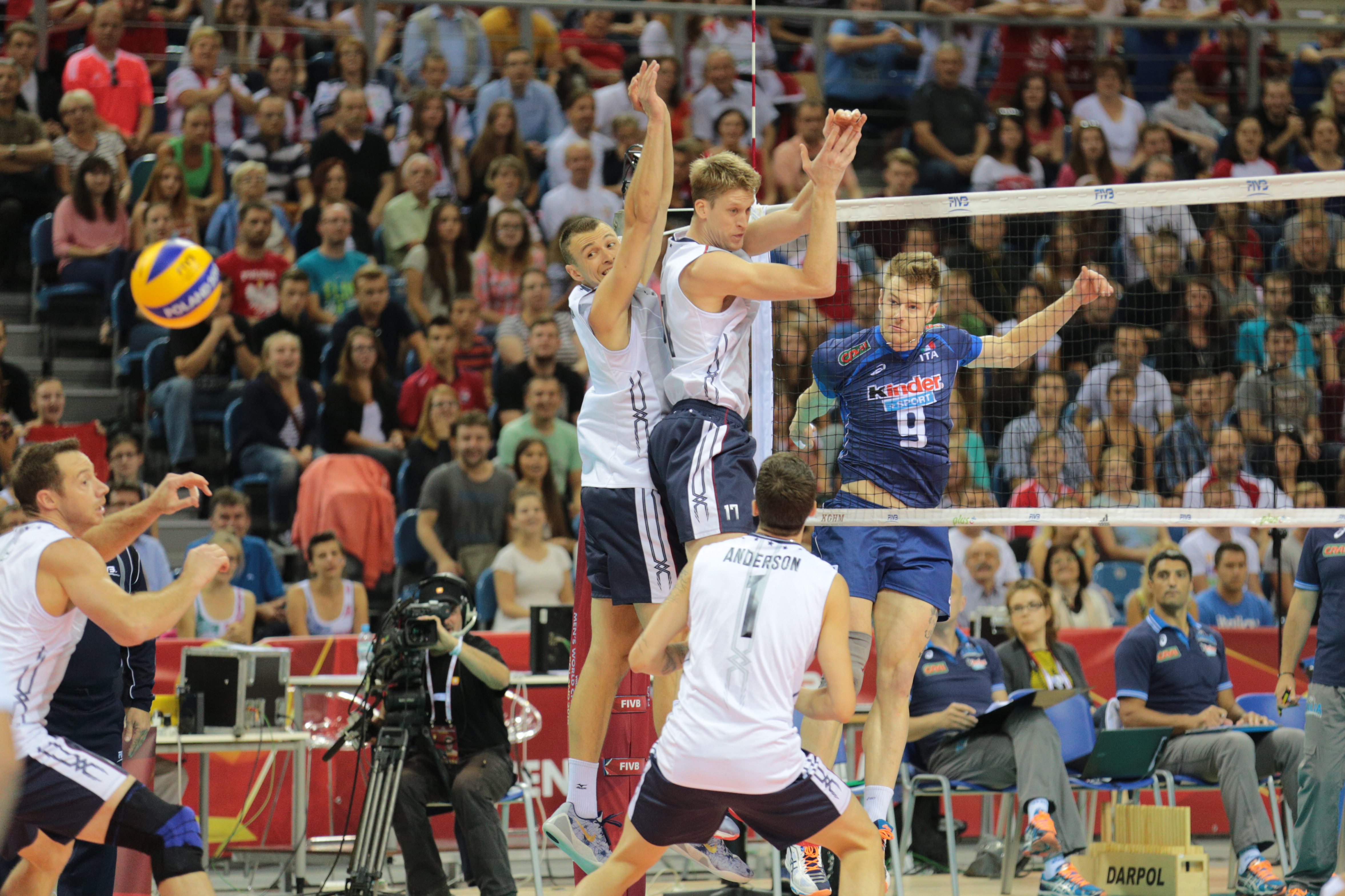 IvanZaytsev (#9) during Men's World Championship Poland 2014, scoring against USA in Kraków. Blocking: Paul Lotman (#6), Maxwell Holt (#17) Also on the floor: David Lee (#4) Matthew Anderson (#1)